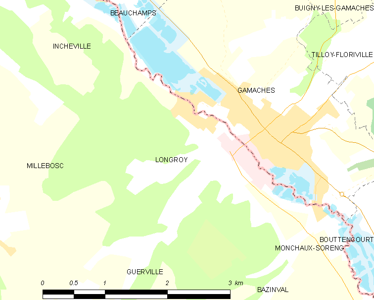 Map of French municipality Longroy